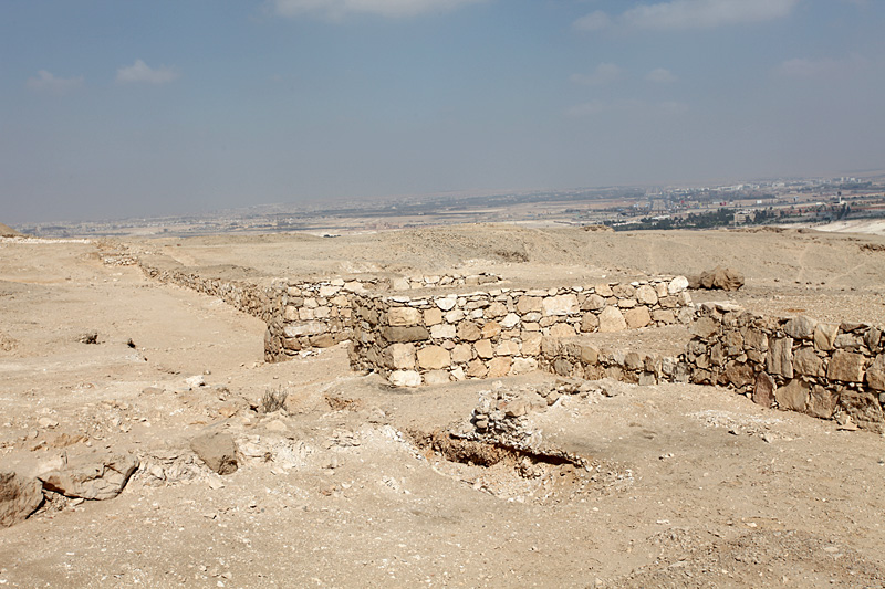 Reconstruction of the outer wall with the entrance at H, Djedefre pyramid, Abu Rawash, Egypt